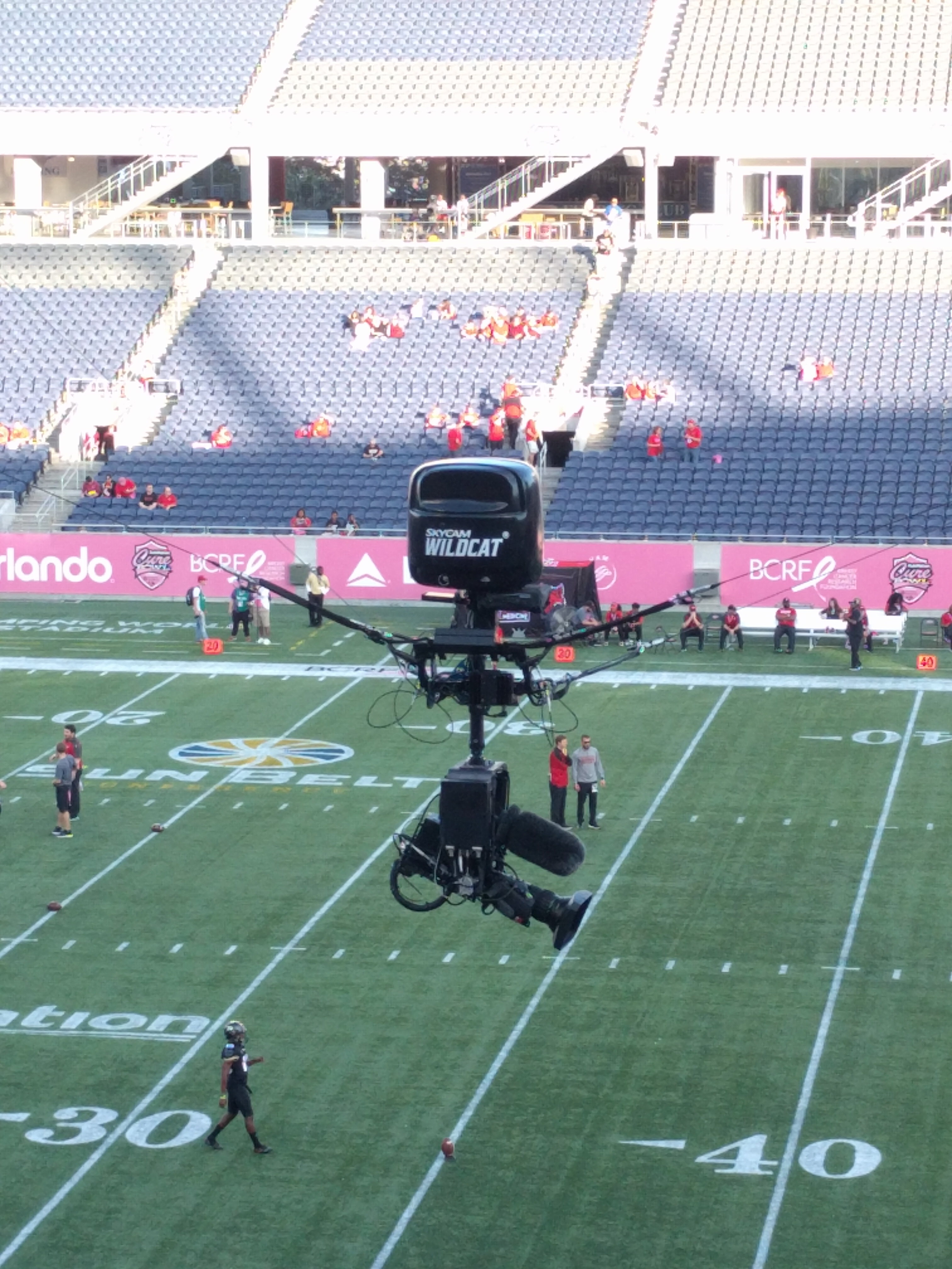 The Skycam calibrating before the game